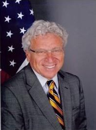 Picture of U.S. Ambassador to Morocco, Samuel Kaplan who was sworn in on September 18, 2009.